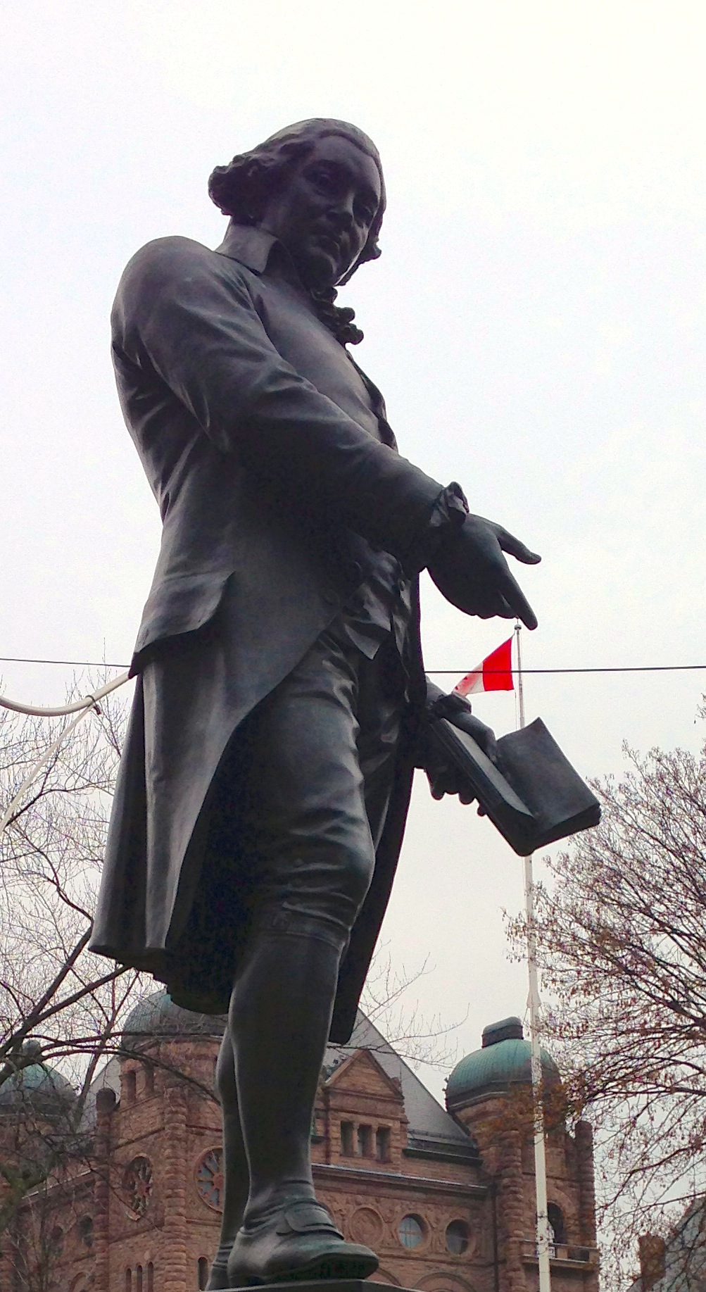 Statue of Robert Raikes, the founder of the Sunday School movement. This monument is just south west of Queens' Park, Toronto, on the University campus.